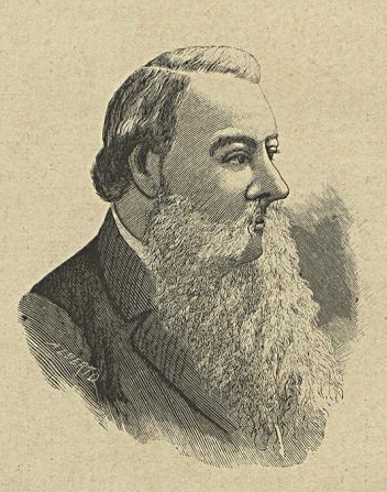 Richard Henry Major (1818-1891), English geographer and map librarian.